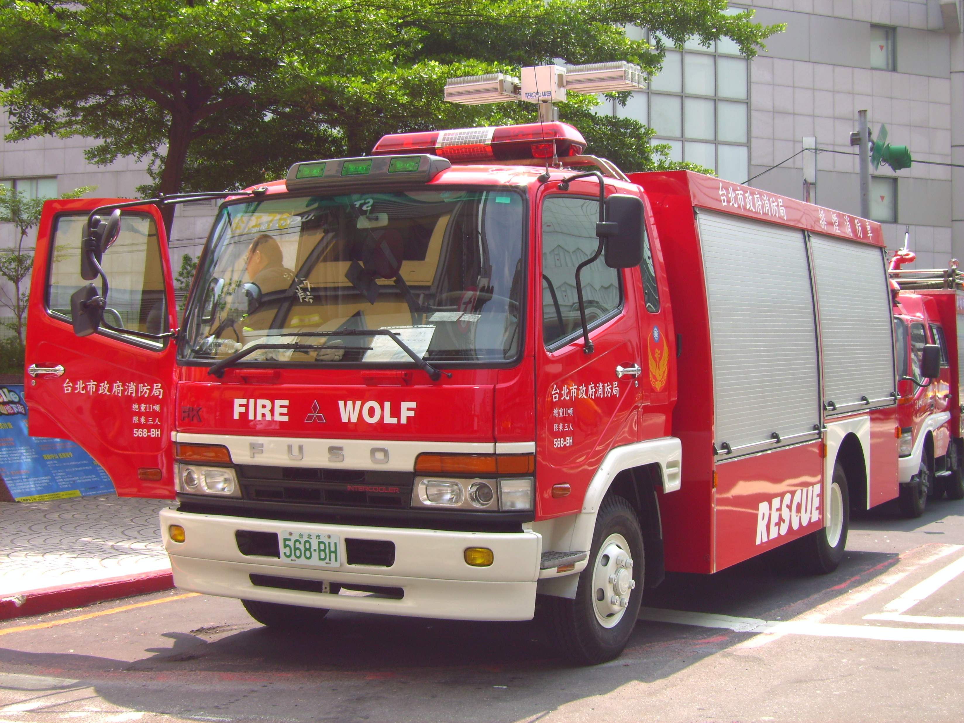 A Fuso FK "Fire Wolf" fire engine 568-BH is currently operated by Taipei City Fire Department.